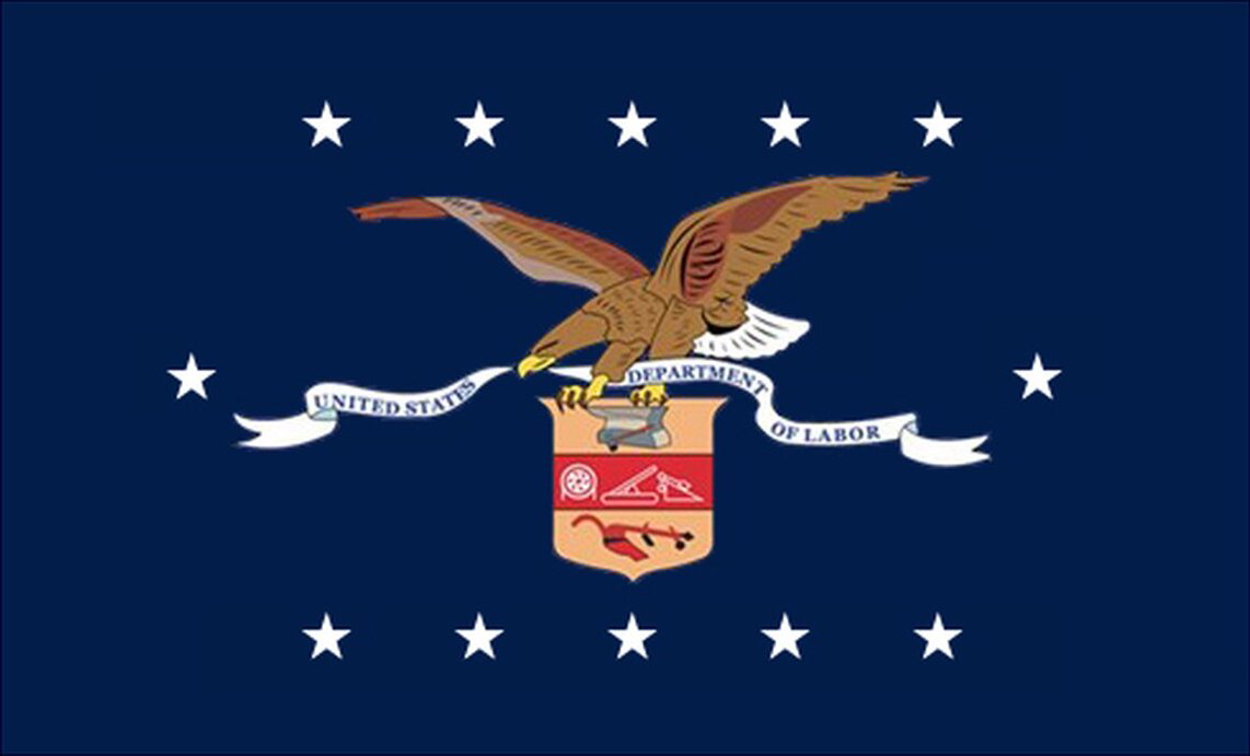 The current flag of the United States Department of Labor (DOL), adopted in 1960.